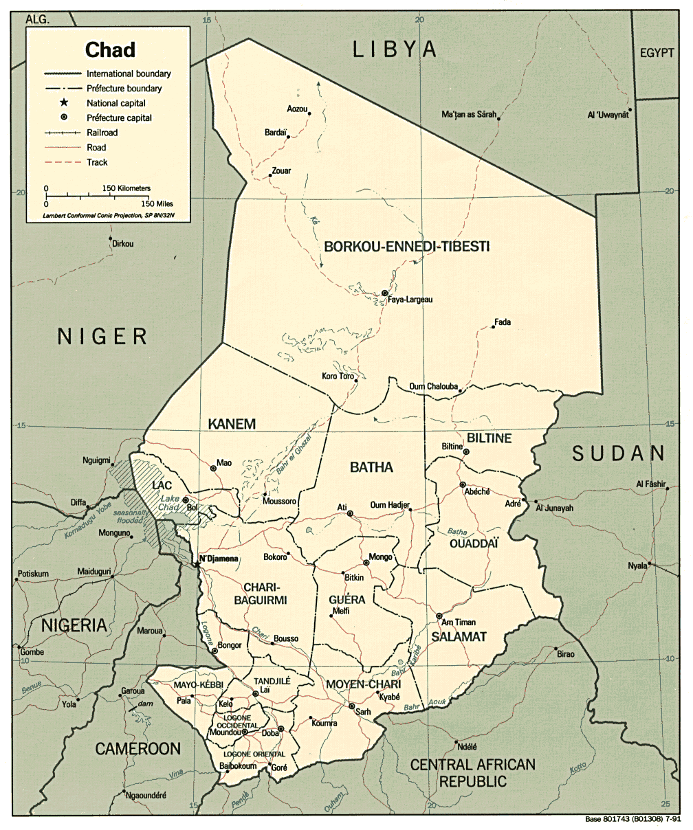 Shaded political map of Chad, 1991, produced by the U.S. Central Intelligence Agency.